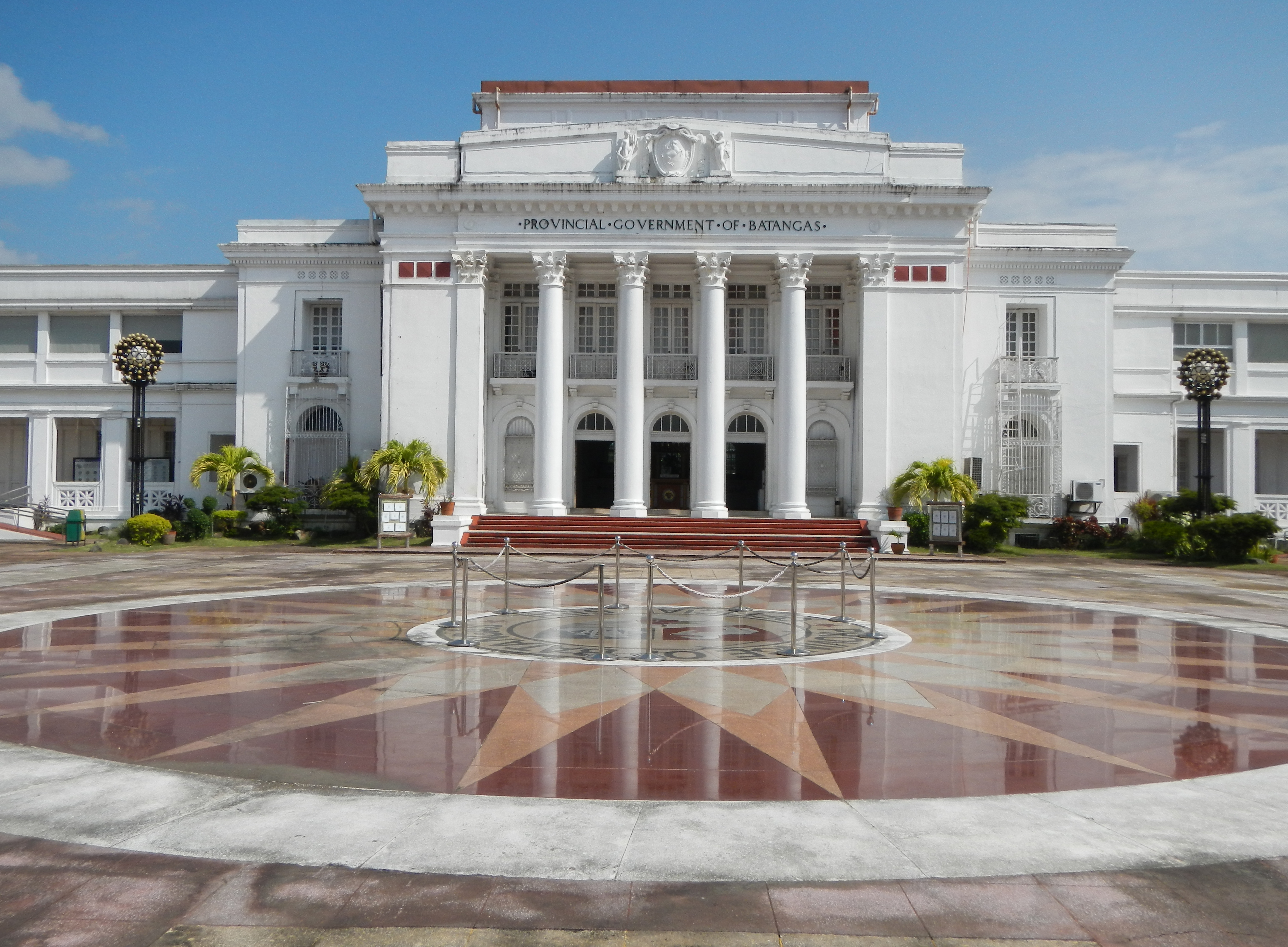 Upload Wizard photos of - Batangas [1] Provincial Capitol [2] Complex - Coordinates: 13°45'55"N 121°3'50"E Batangas City (the largest and capital city of the Province of Batangas, the "Industrial Port City of Calabarzon", 2010 census, the city has a population of 305,607 people).